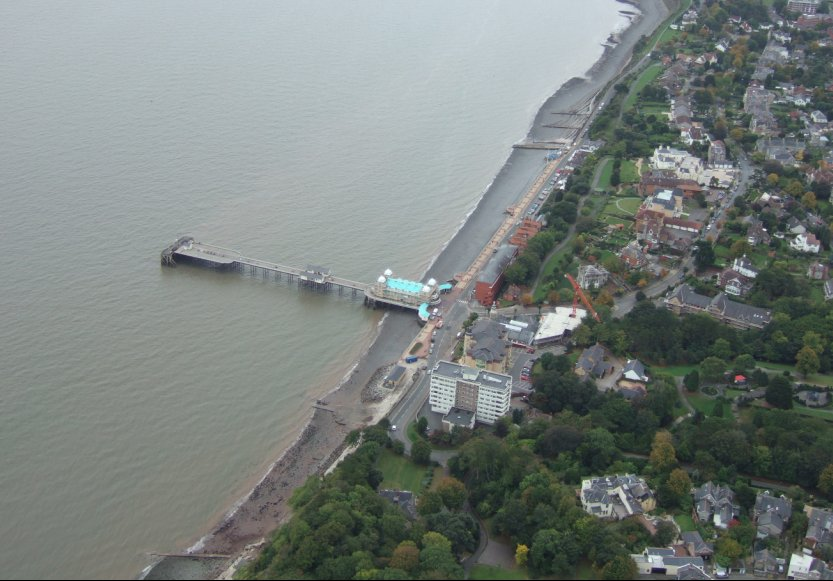 Penarth South Wales - aerial photograph